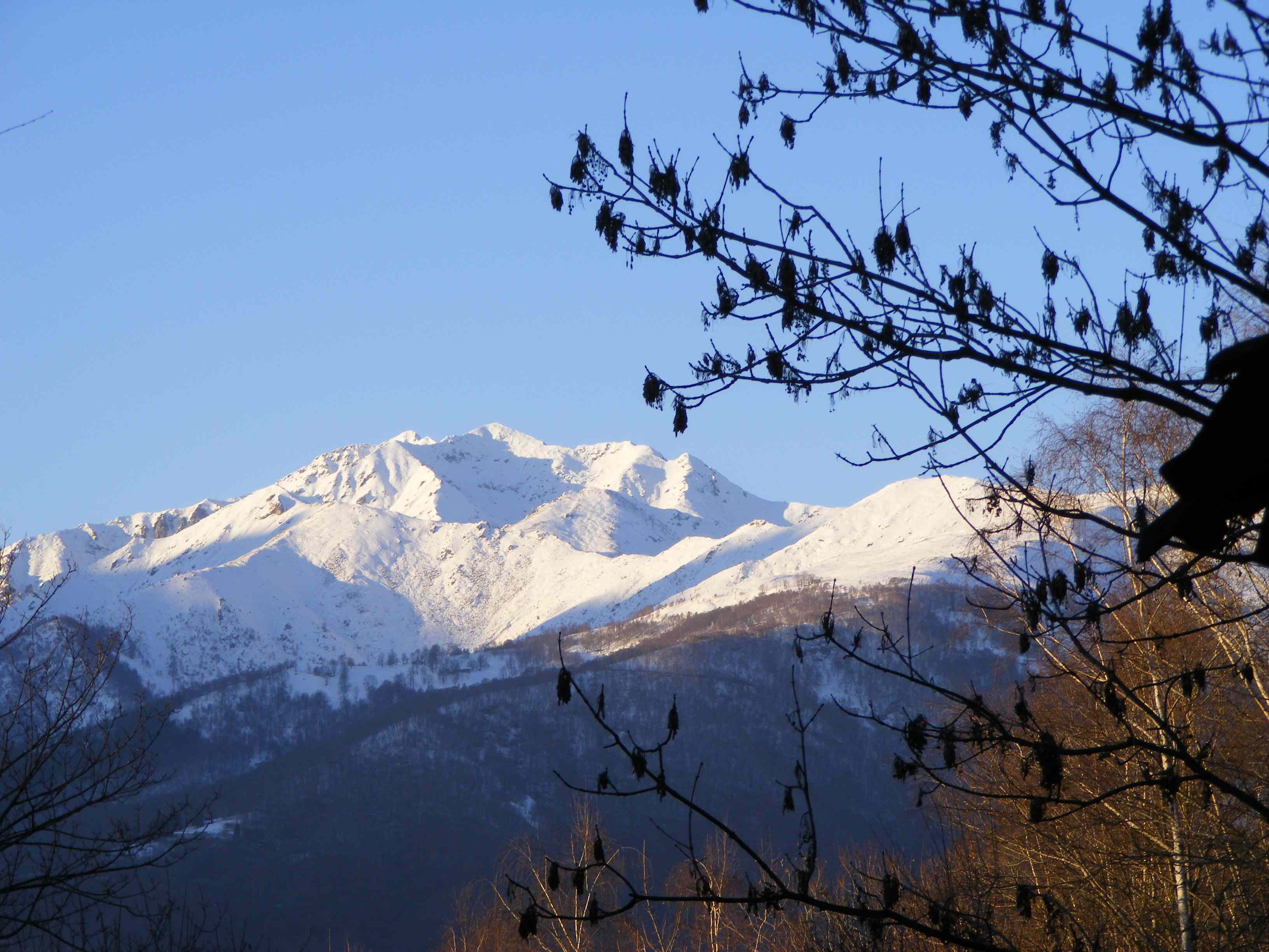 Mount Bo from Colma di Biella (Italy, Piedmont)